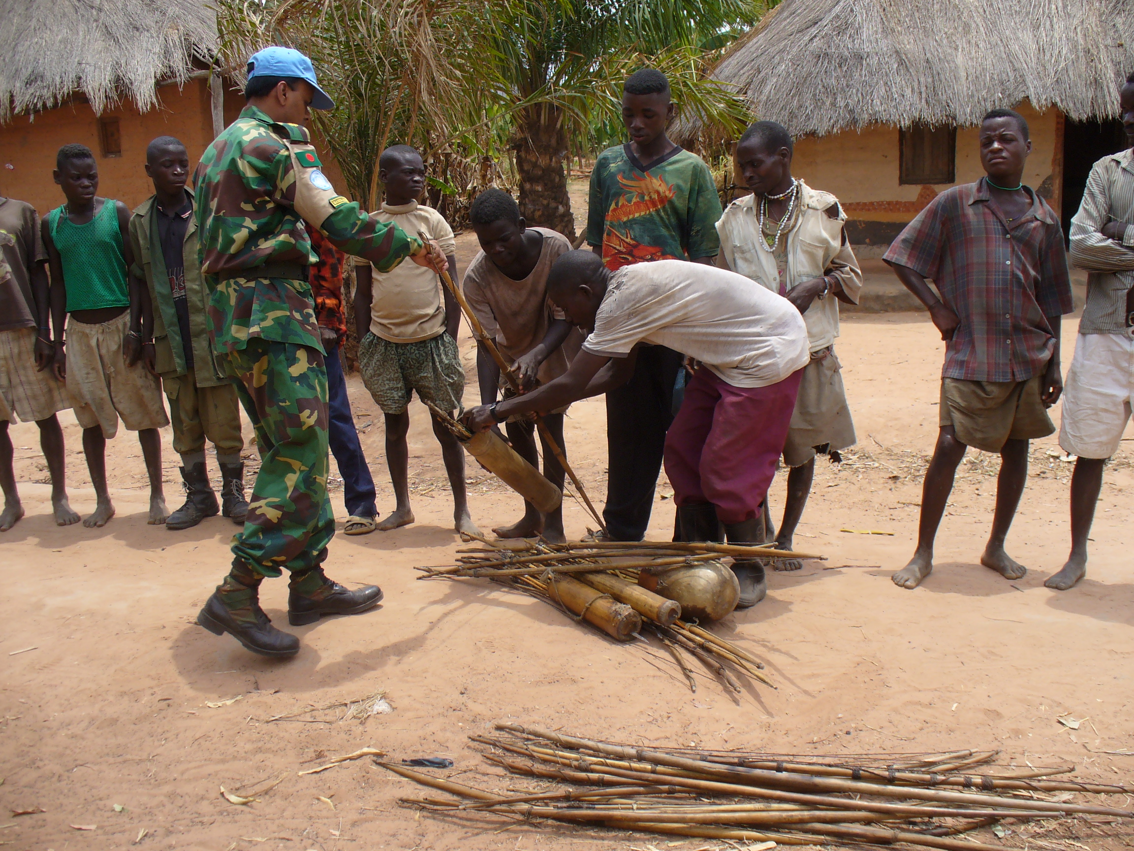 A group of Mai Mai militants surrender to the authorities in northern Katanga.